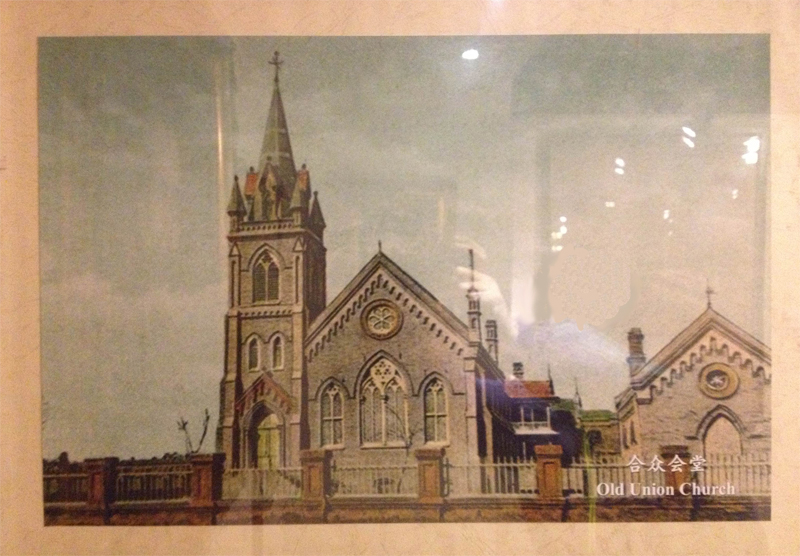 A copy of the united church in tianjin on old post card, photographed at Tianjin Astor Hotel. 中文（中国大陆）: 旧明信片上的天津合众会堂，摄于天津利顺德酒店博物馆。